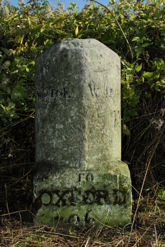 Milestone on the A340 road west of Theale, Berkshire, at the staggered crossroads with the minor road to Bradfield: view from the west